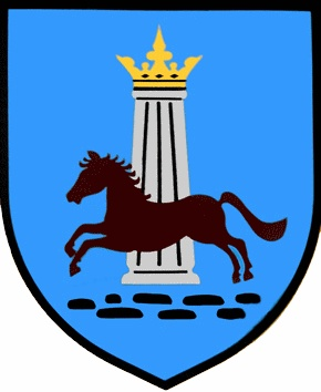 Sól (Poland) coat of arms.